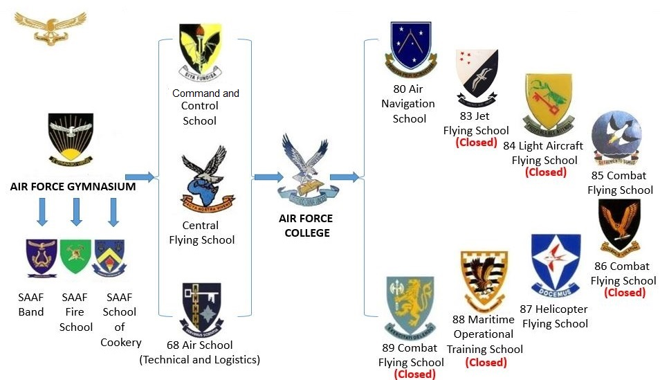 Mistake on training unit now reads Command and Control School